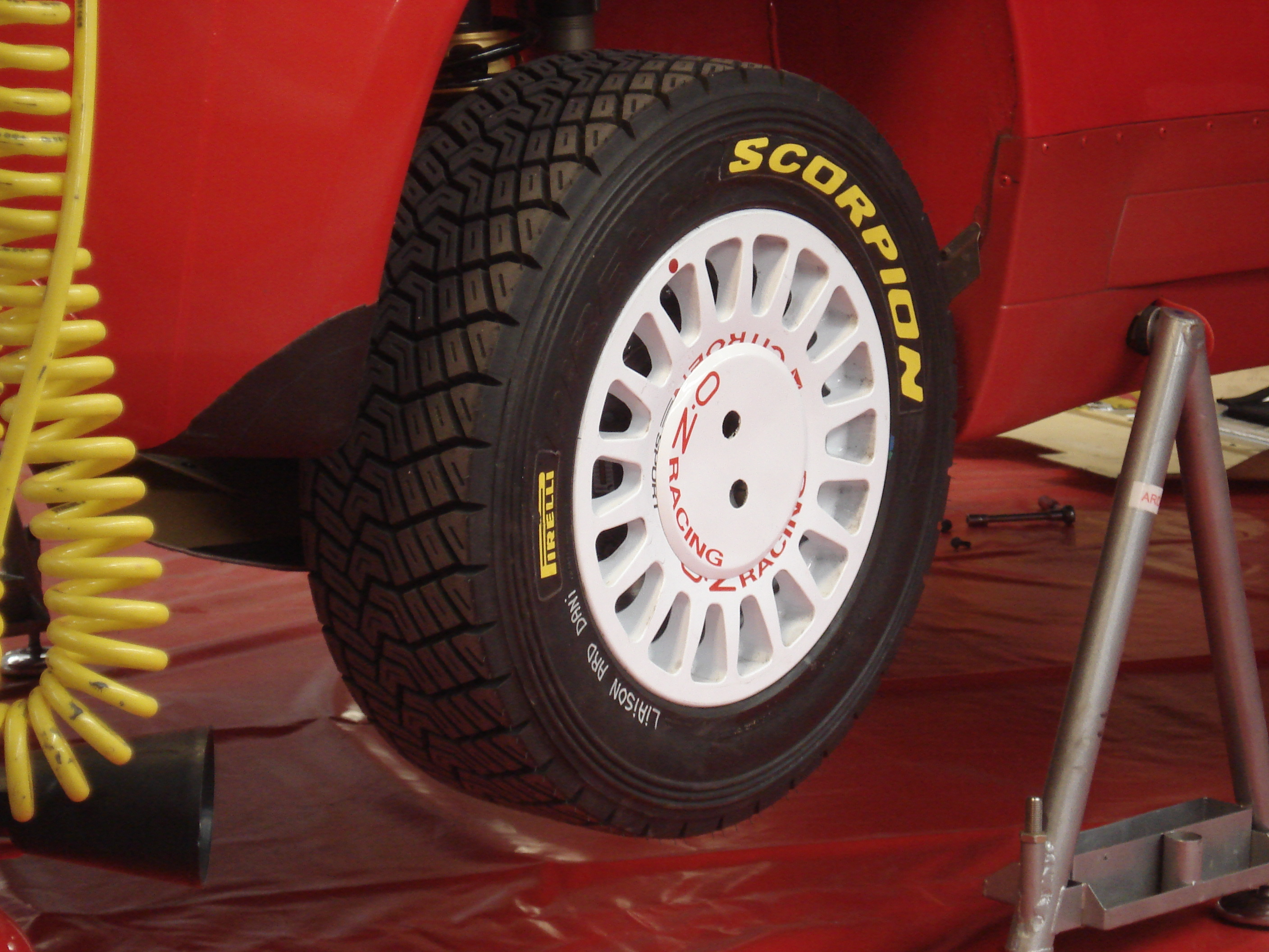 Pirelli Scorpion tires on Dani Sordo's Citroen C4 WRC car the night before the start of the 2008 Rally Mexico.